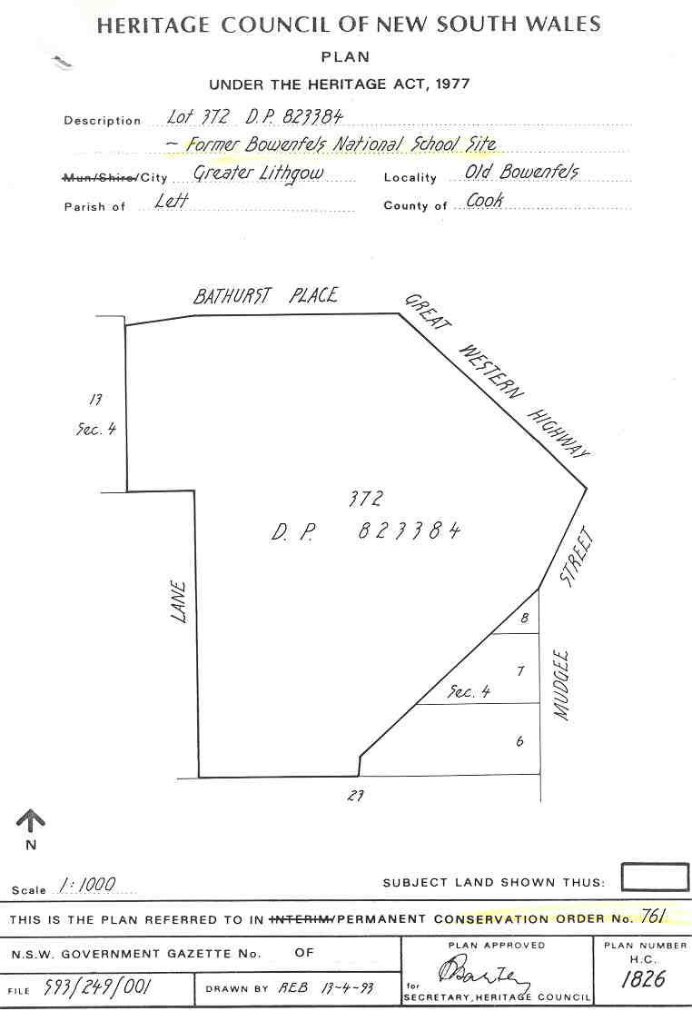 Bowenfels National School Site: PCO Plan Number 761